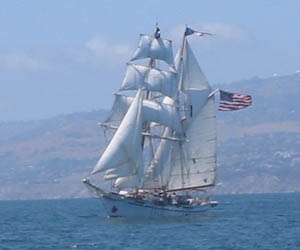 The STV Irving Johnson off the Southern California coast - 2004